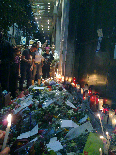 The burned out Marfin Bank in central Athens, where 3 adults and an infant died during the protests of May 5 2010.